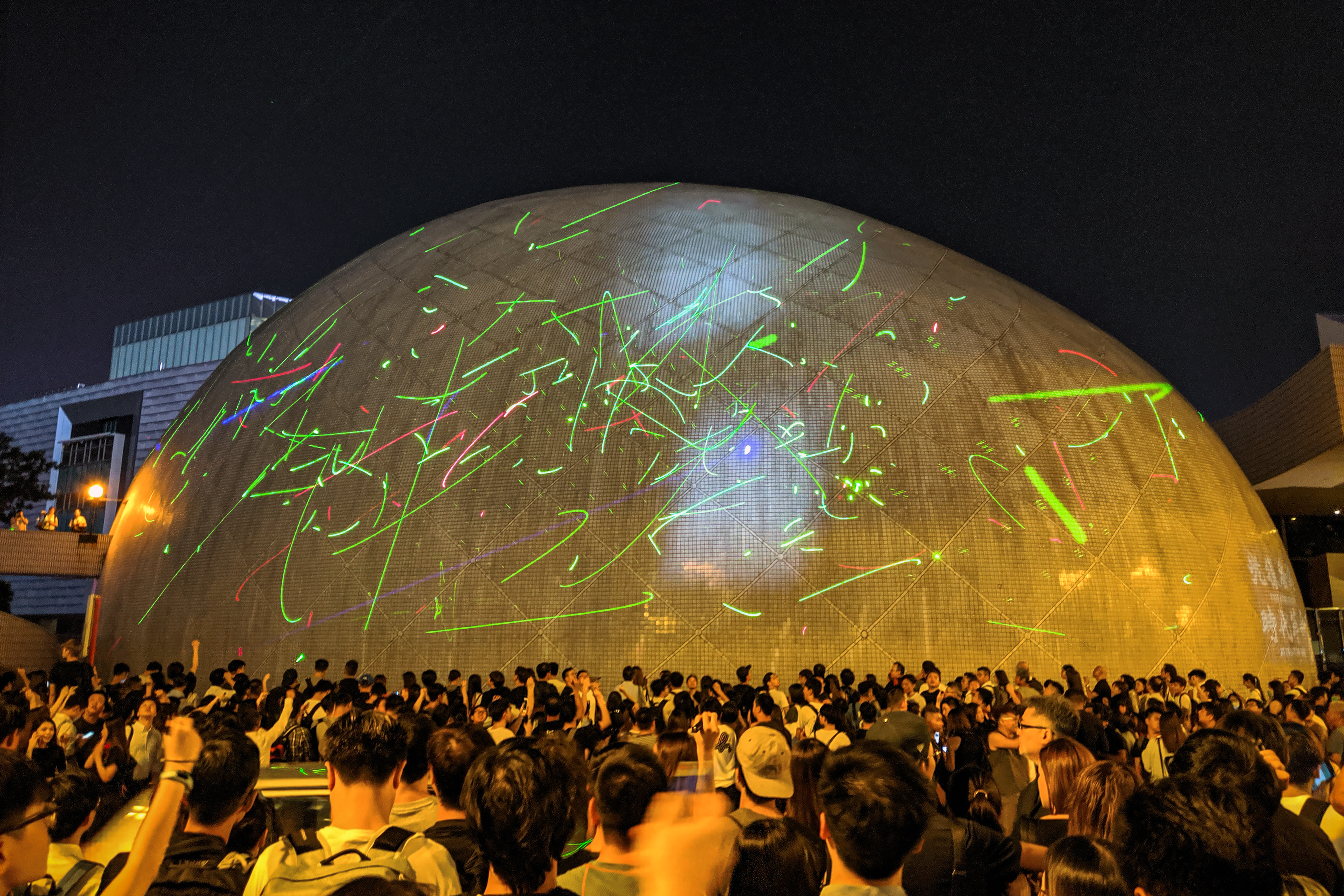 Hundreds gathered at Hong Kong Space Museum with their laser pointers in protest of selective legal enforcement and the arrest of HKBU student union president Keith Fong. 7 August 2019